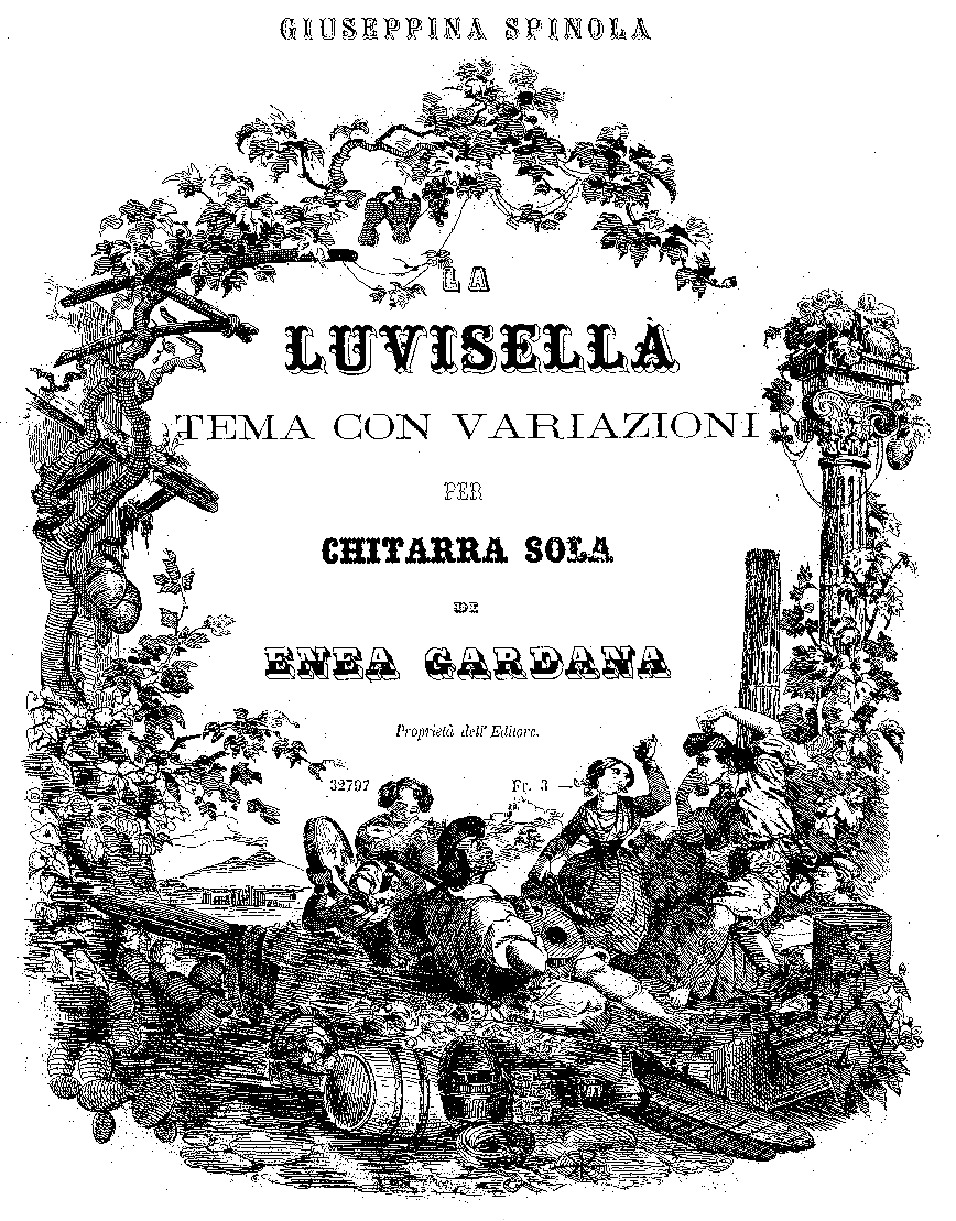 The Luvisella, theme and variations for solo guitar